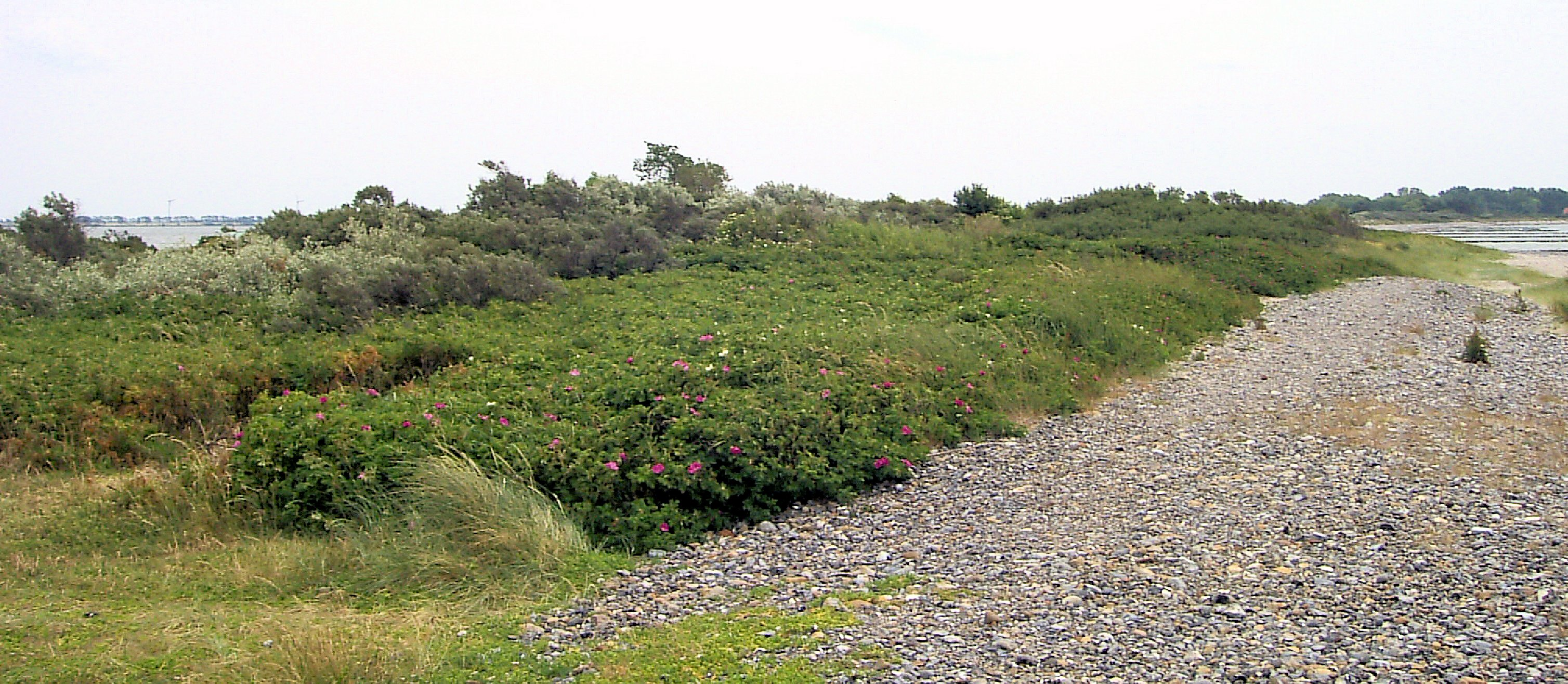 narrow point of Bug Penimsula, Rügen